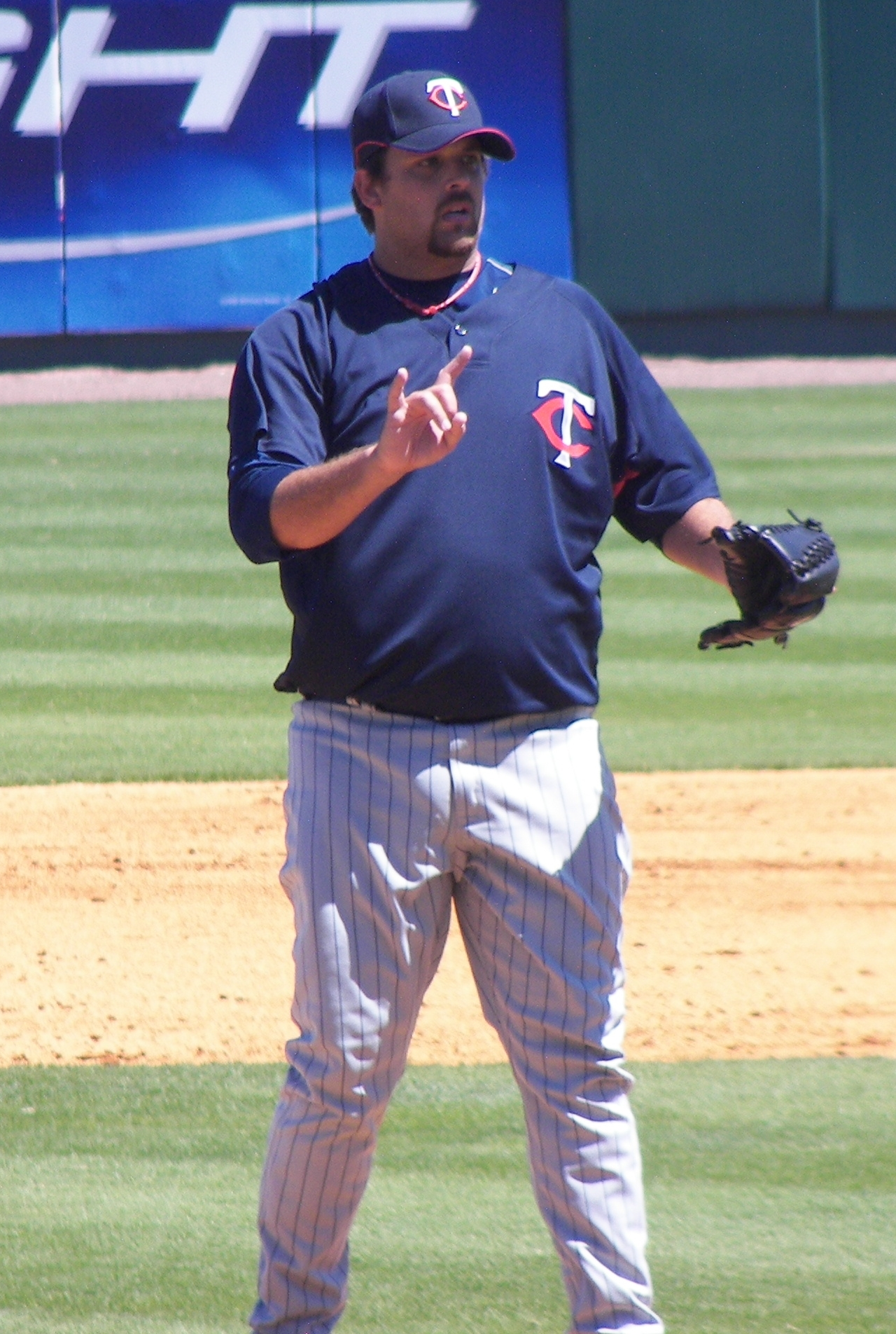 Minnesota Twins pitcher Boof Bonser during a Twins/Pittsburgh Pirates spring training game at McKechnie Field in Bradenton, Florida.